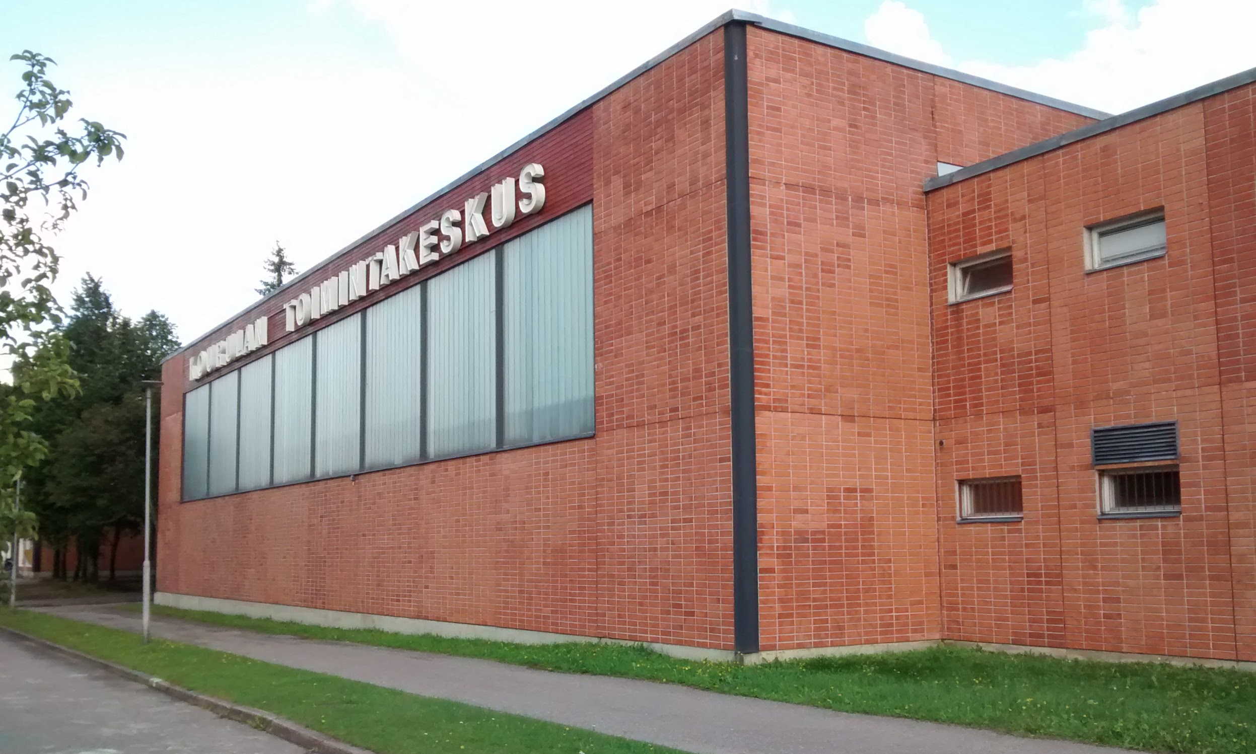 Kourulan toimintakeskus, a sports facility. Kourula, Lappeenranta.